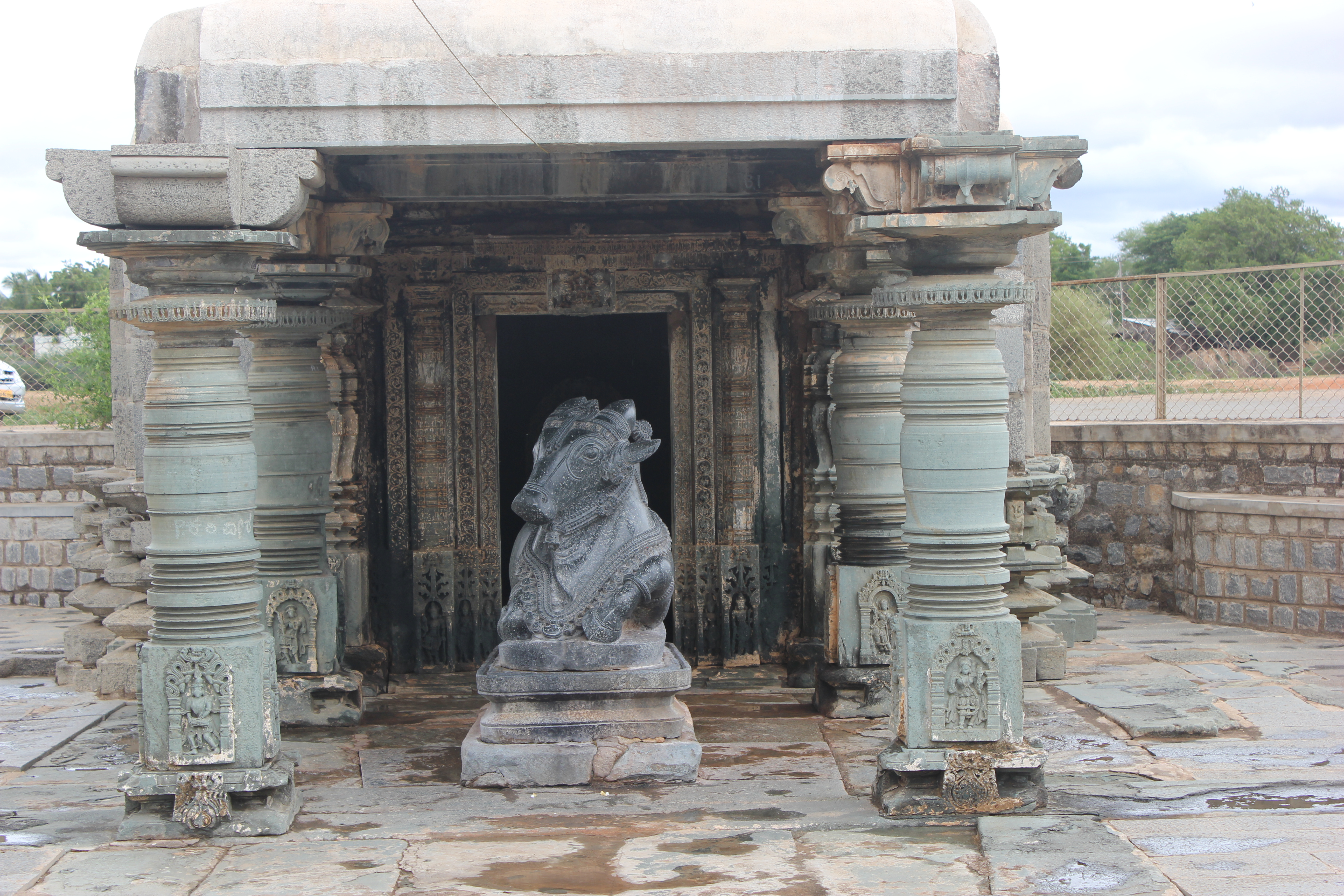 This photograph was taken by me at the Kalleshvara temple (also spelt Kalleshwara or Kallesvara) in Hire Hadagali, Bellary district, Karnataka state, India. The temple was built in 1057 A.D. by Western (Kalyani) Chalukya King Somesvara I